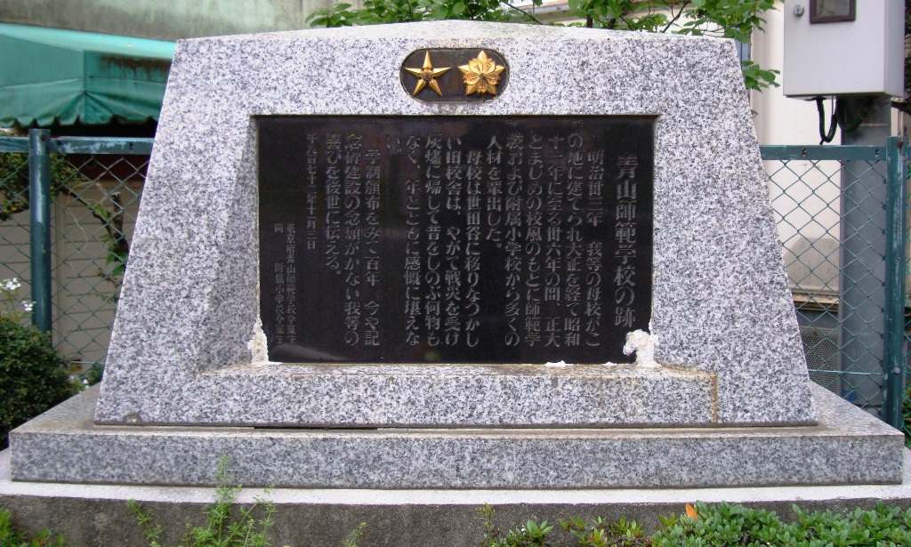 Monument for Aoyama Shihangakko (Teacher Training College) at Aoyama-kitamachi Apartment, Tokyo